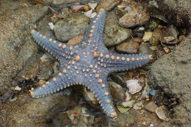 Pentaceraster (P. mammillatus ?), Lazy Lagoon, near Bagamoyo, Tanzania.